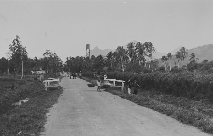 The road to Bengkajang, West-Borneo.